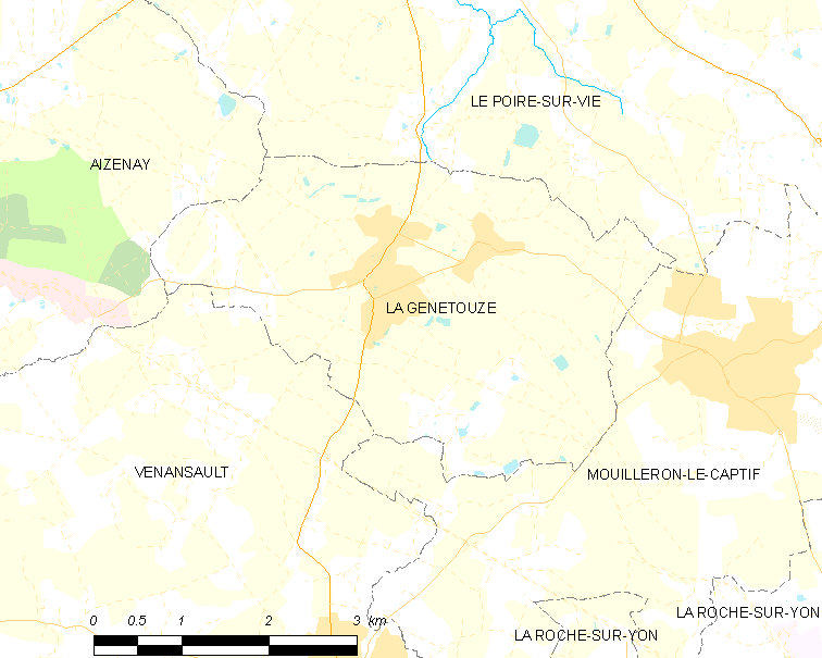 Map of French municipality La Génétouze